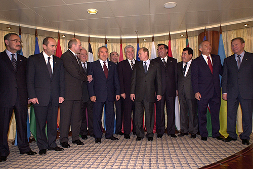 ST. PETERSBURG. Joint photo session of the CIS leaders.